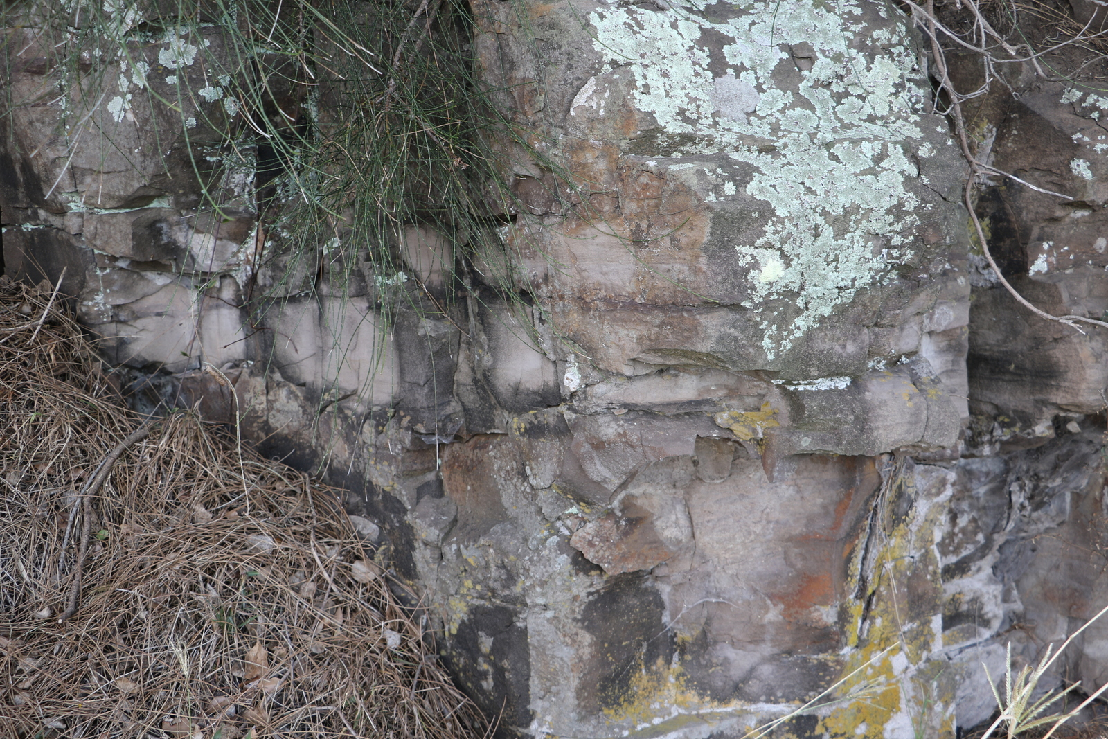 Budgong Sandstone Lake Illawarra shoreline